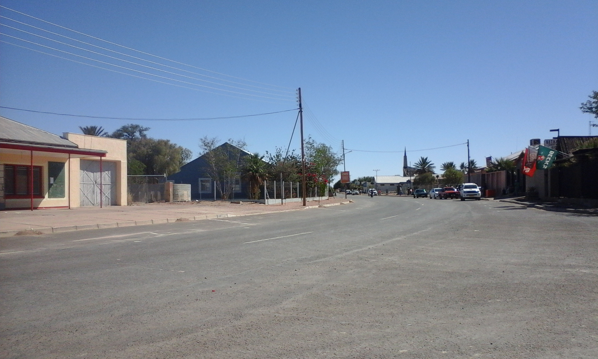 Main road of Bethanie in Namibia in April 2016